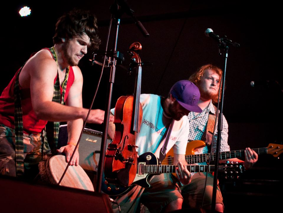 Photo by Jessica Shepherd